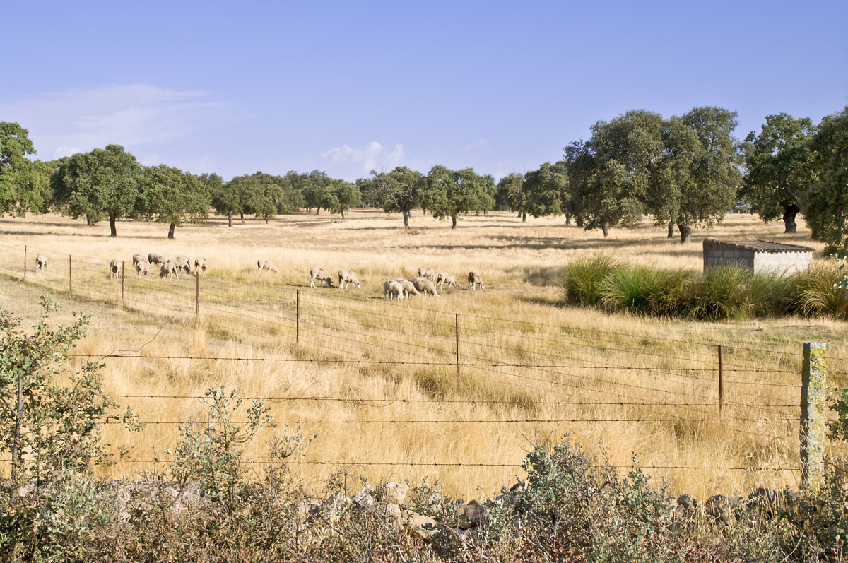 Dehesa de Los Pedroches